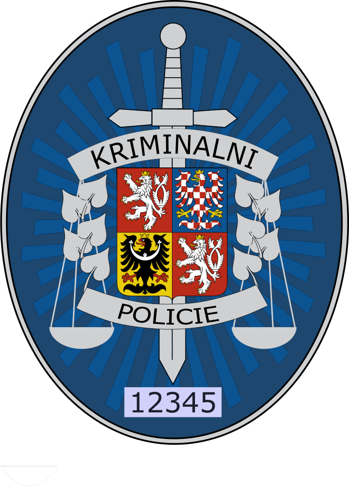 Badge of the Service of the Criminal Police and Investigation (SKPV) of Police of Czech Republic.